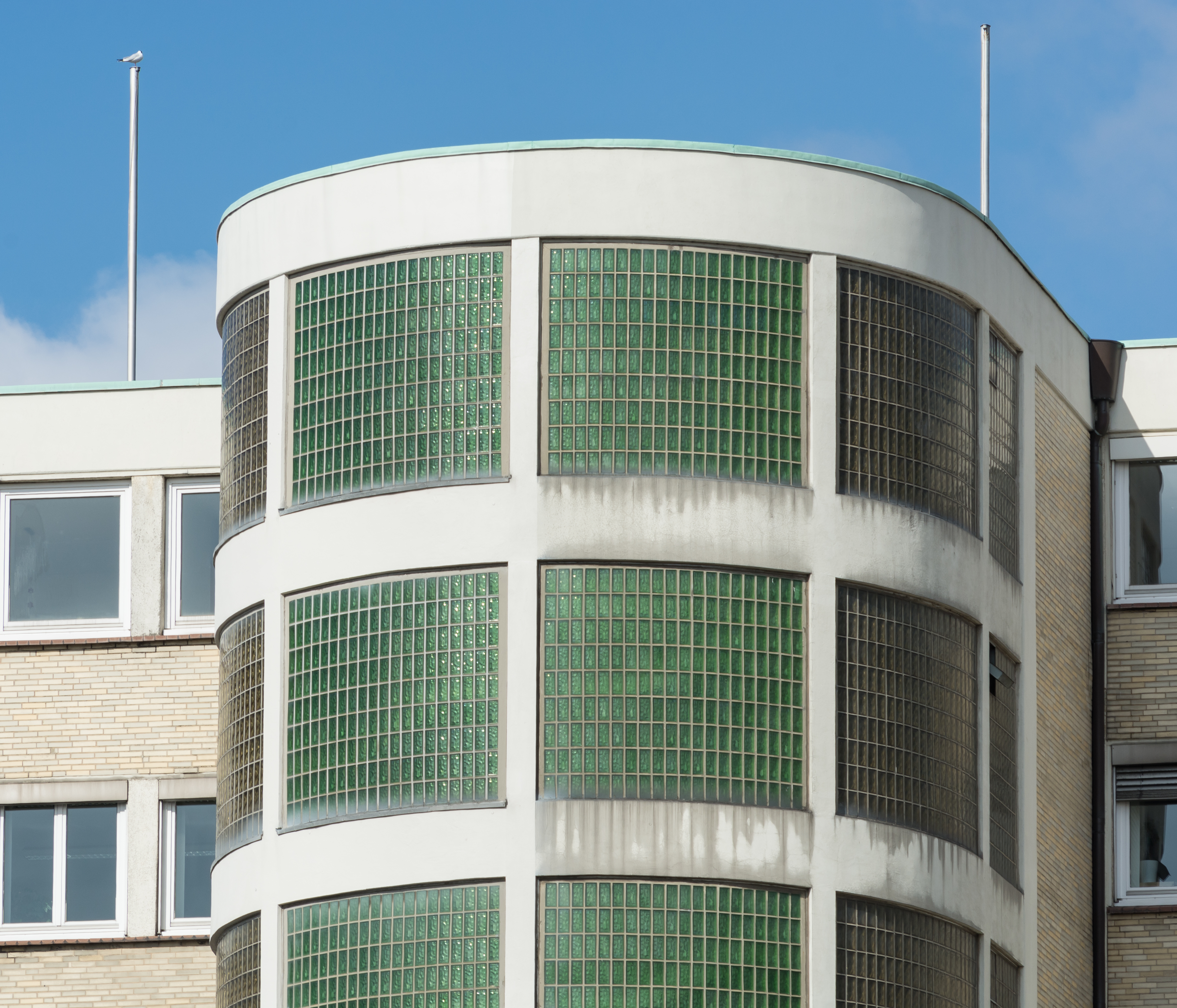 Staircase ofKurt-Schumacher-Haus office building in Hamburg. This is a photograph of an architectural monument.